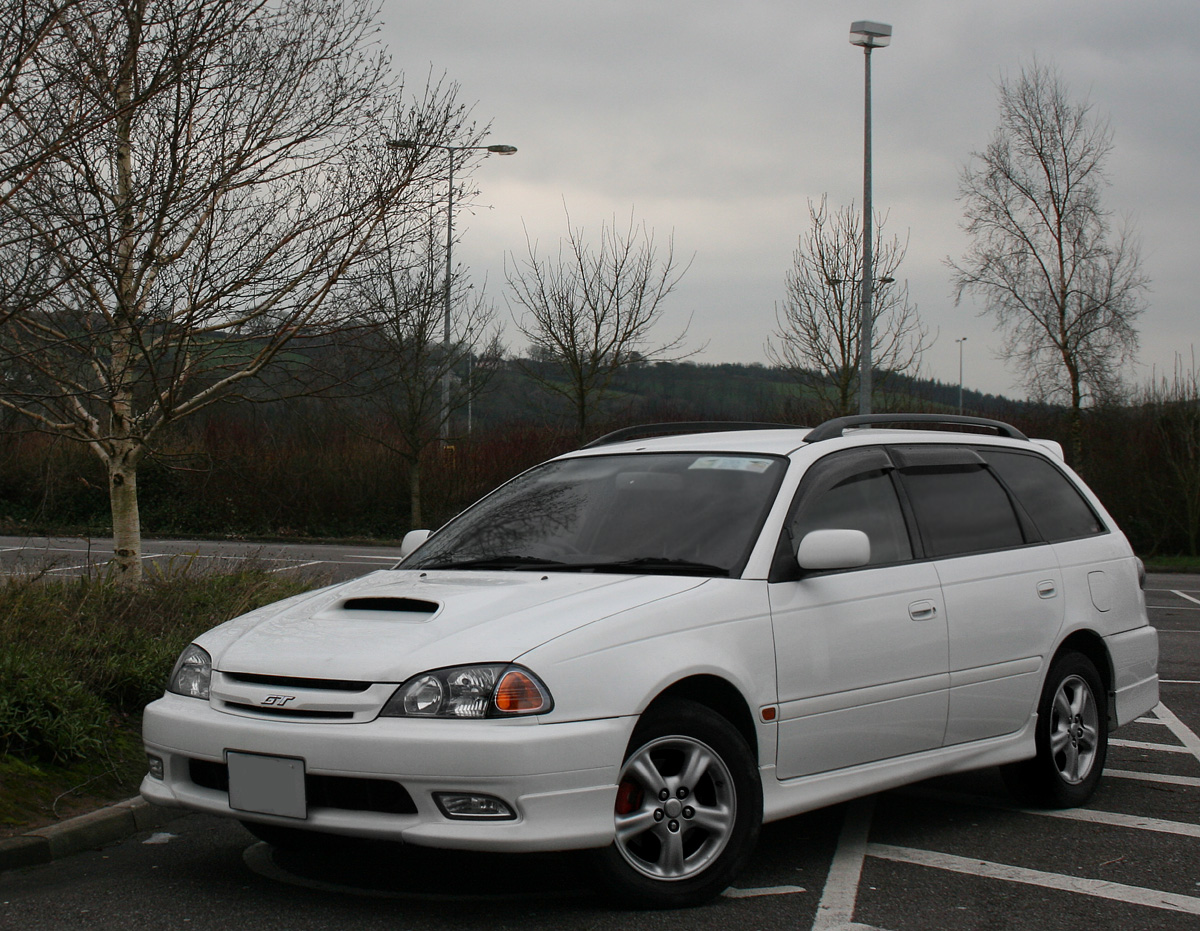 A 2000 model Toyota Caldina GT-T